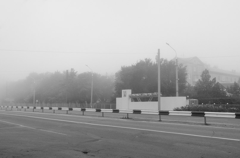 For in Molodogvardeysk (Ukraine, Luhansk State)